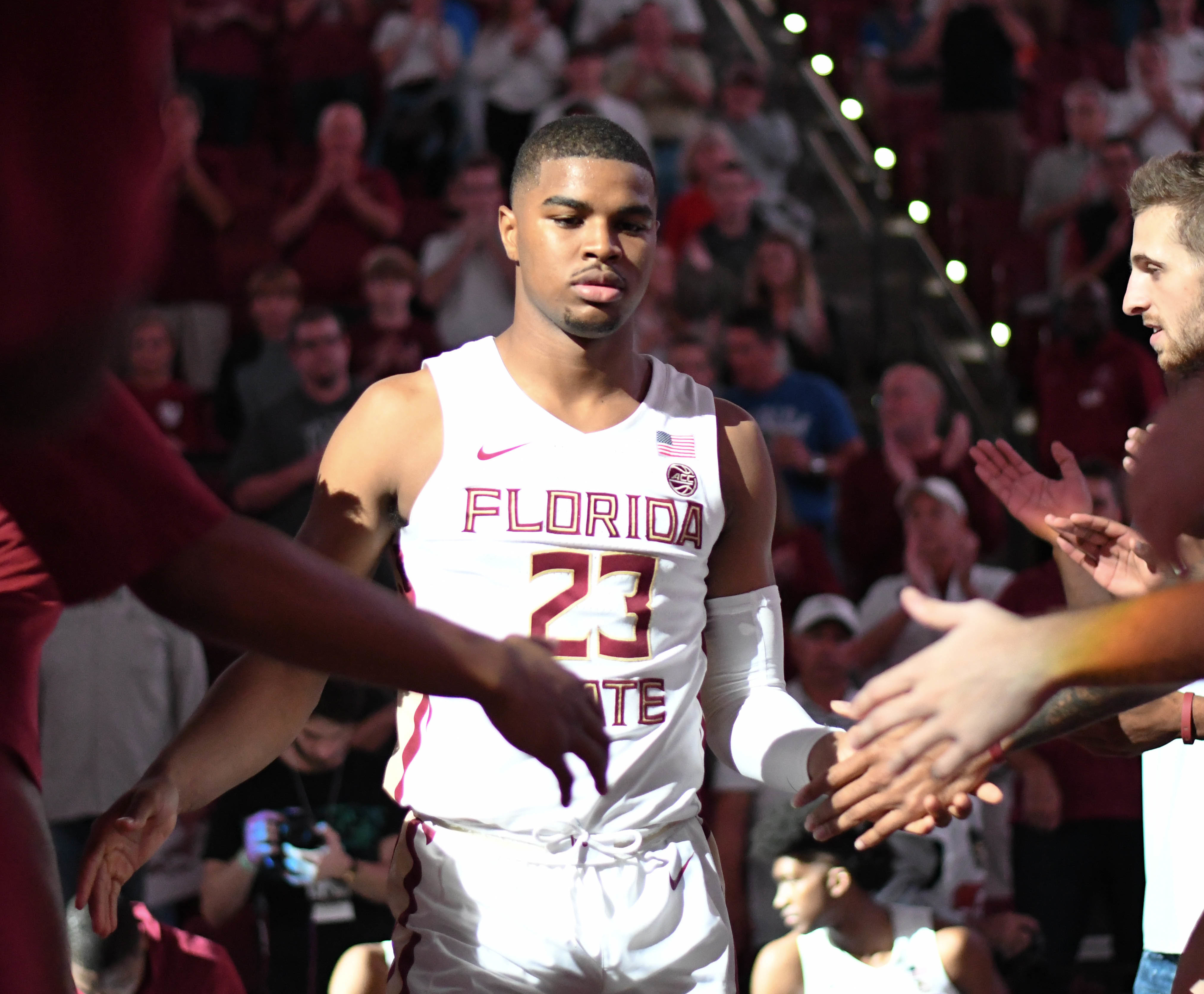 FSU sophomore guard MJ Walker (23) being introduced in the starting lineup before FSU's game against UF at the Tucker Center on November 6, 2018.